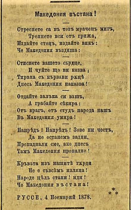 Ivan Vazov Makedonia Vastana